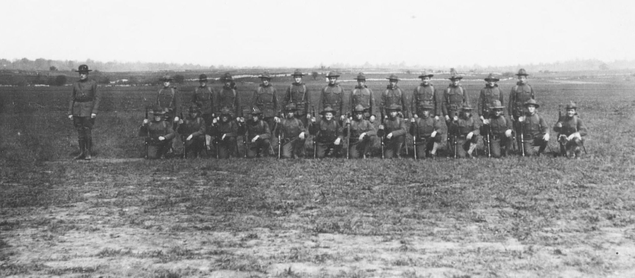 800th Aero Squadron - Flight C, 5th Aerial Artillery Observation School (5th AAOS), Camp La Valdehon, France, November 1918